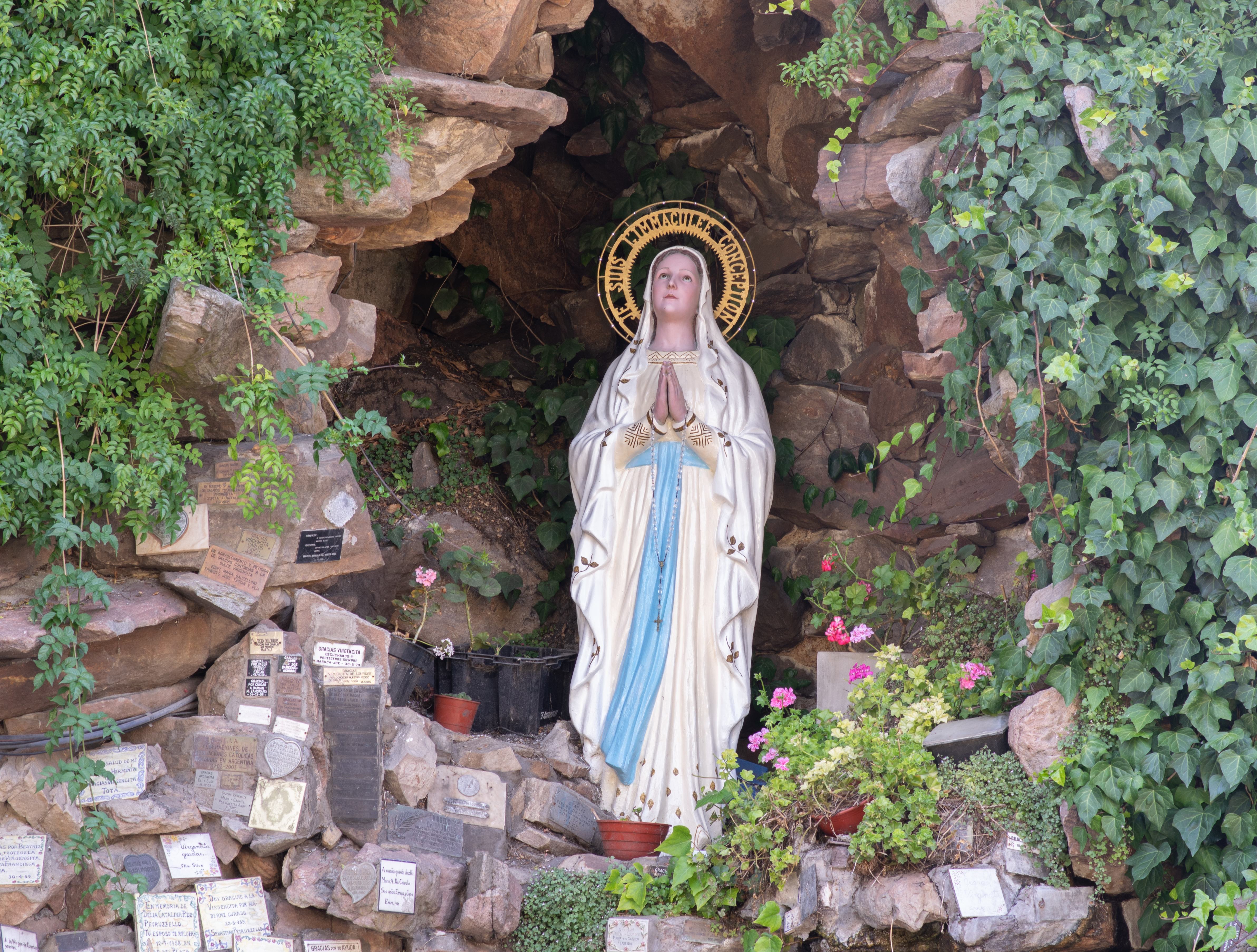 Statue to Our Lady of Lourdes, Lourdes Grotte, Mar del Plata, Argentina